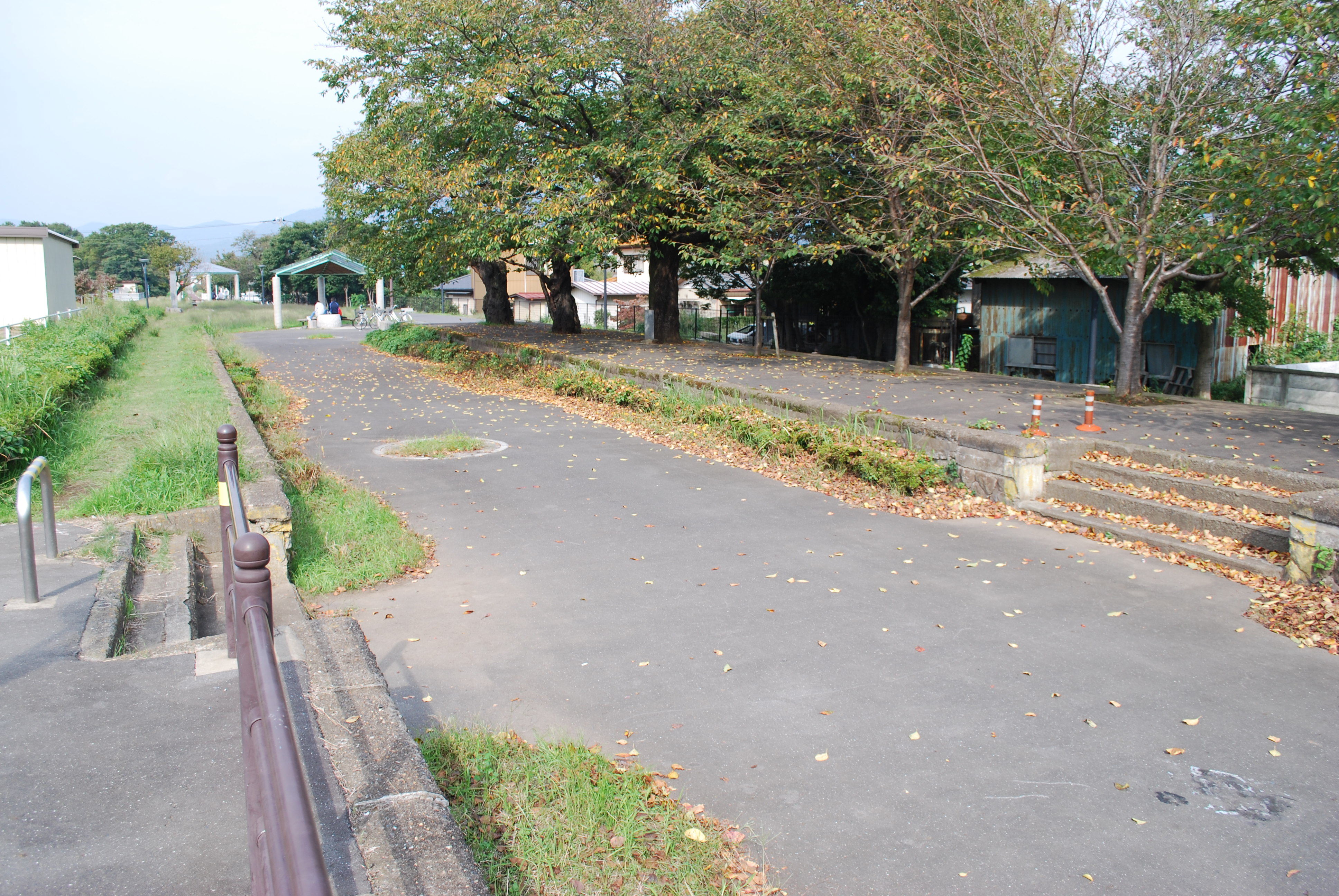 Old-Makabe-sta.,sakuragawa-city,japan